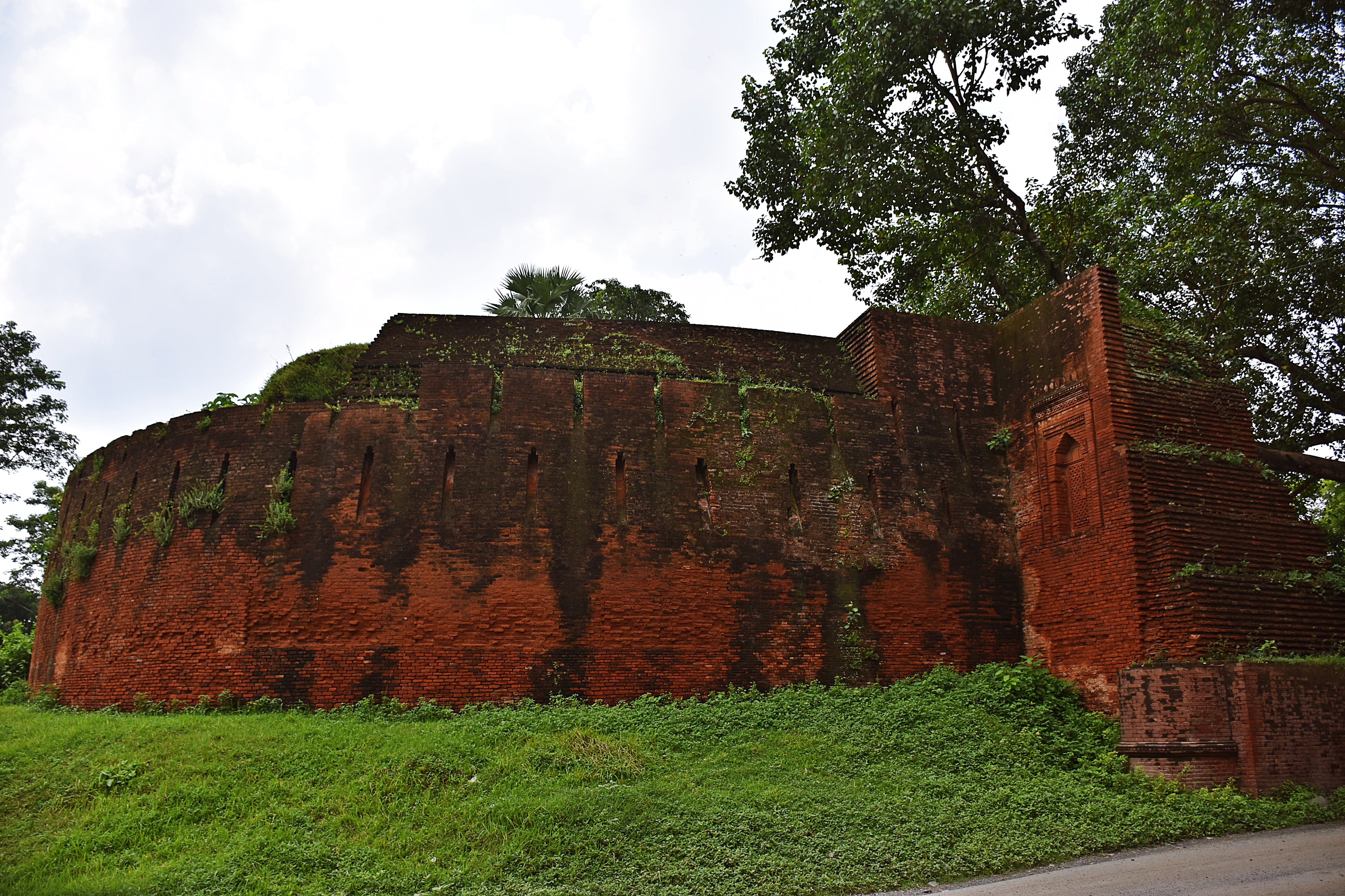 Kotwali Darwaja